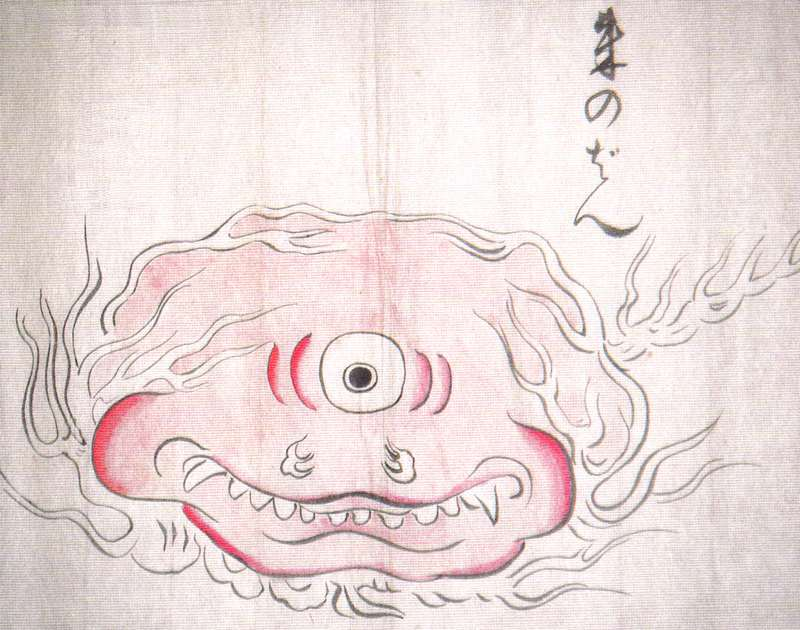 Shu no Bon (朱のばん, a red-faced ghoul that surprises people) from the Bakemono-dukishi-e ("化物づくし絵", Japanese picture)